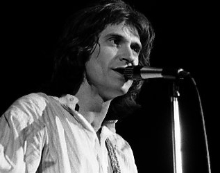 Maple Leaf Gardens, Toronto, April 29, 1977